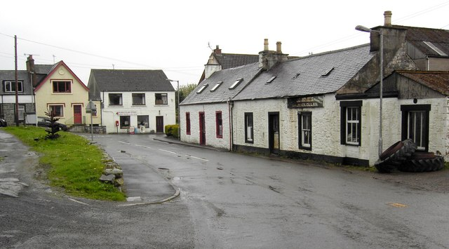 Balmaclellan High street, downtown Balmaclellan, near New Galloway.